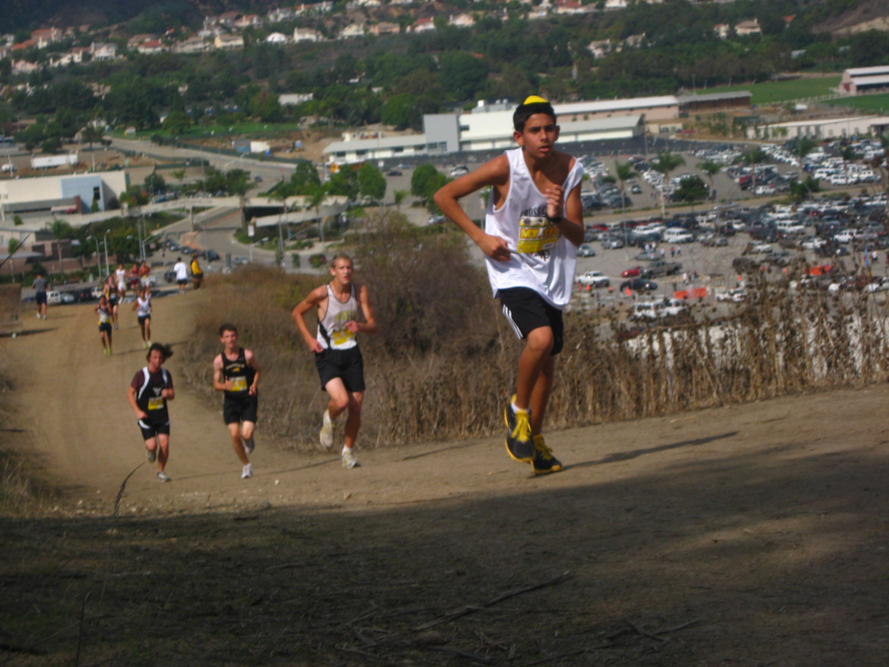 Mt. SAC Cross Country Invitational in 2010, the single largest running event in the world